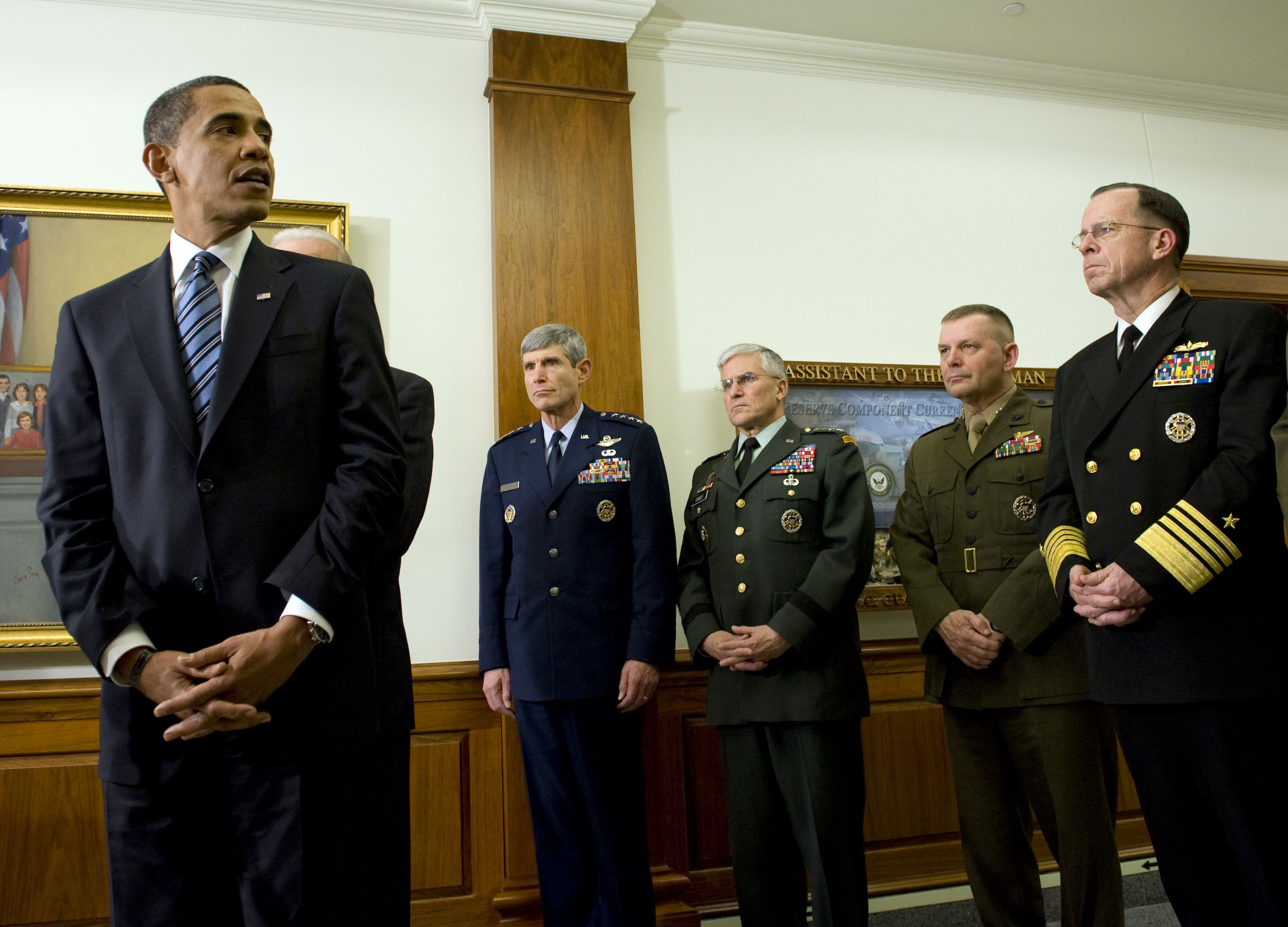 WASHINGTON (Jan. 28, 2009) President Barack Obama, with, from left, Gen. Norton Schwartz, Air Force chief of staff; Gen. George W. Casey, U.S. Army chief of staff; Gen. James E. Cartwright, vice chairman of the Joint Chiefs of Staff and Adm. Mike Mullen, chairman of the Joint Chiefs of Staff, addresses the media during his first visit to the Pentagon since becoming commander-in-chief. Obama and Vice President Joe Biden met with Secretary of Defense Robert M. Gates and all the service chiefs for their input on the way ahead in Afghanistan and Iraq. (U.S. Navy photo by Mass Communication Specialist 1st Class Chad J. McNeeley/Released)